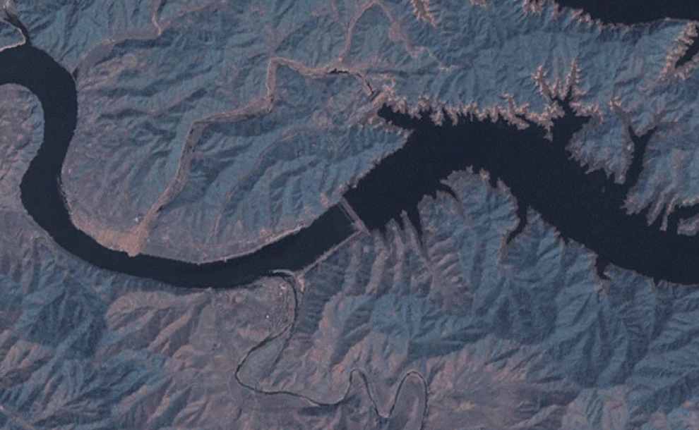 Sup'ung Dam seen in the middle of the image. China is at the top of the image, North Korea on the bottom.